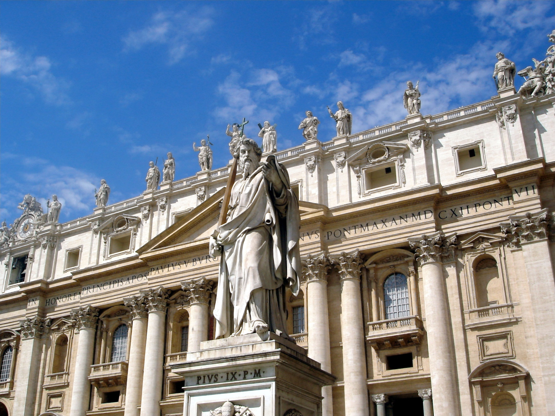 St. Paul's statue with the St. Peter's basilica in the background.